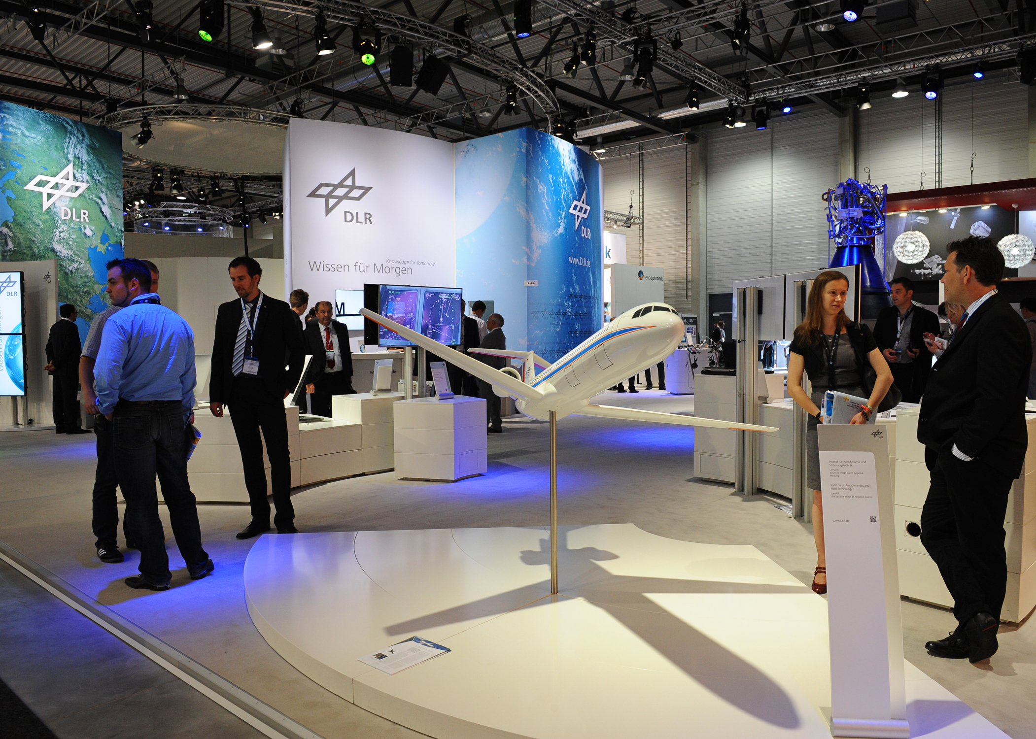 DLR at ILA 2012 - Day 1, first impressions